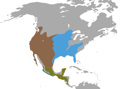 Composite areas of the species of Spilogale.